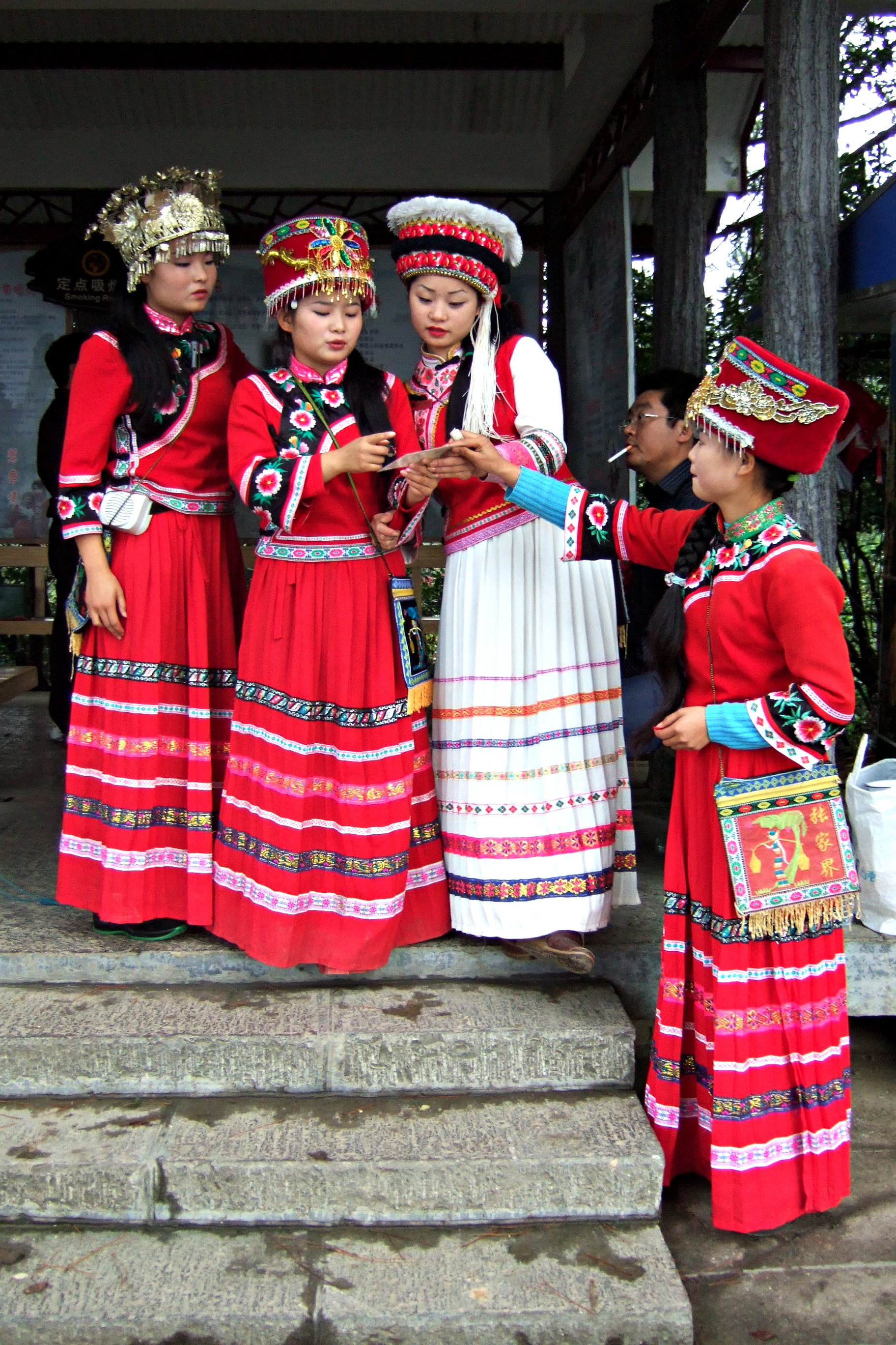 Tujia women in traditional dresses